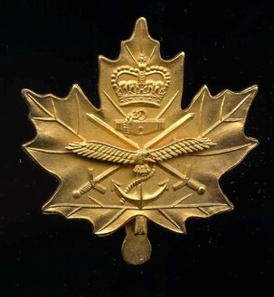 Cadet Instructor List Tri-Service Capbadge